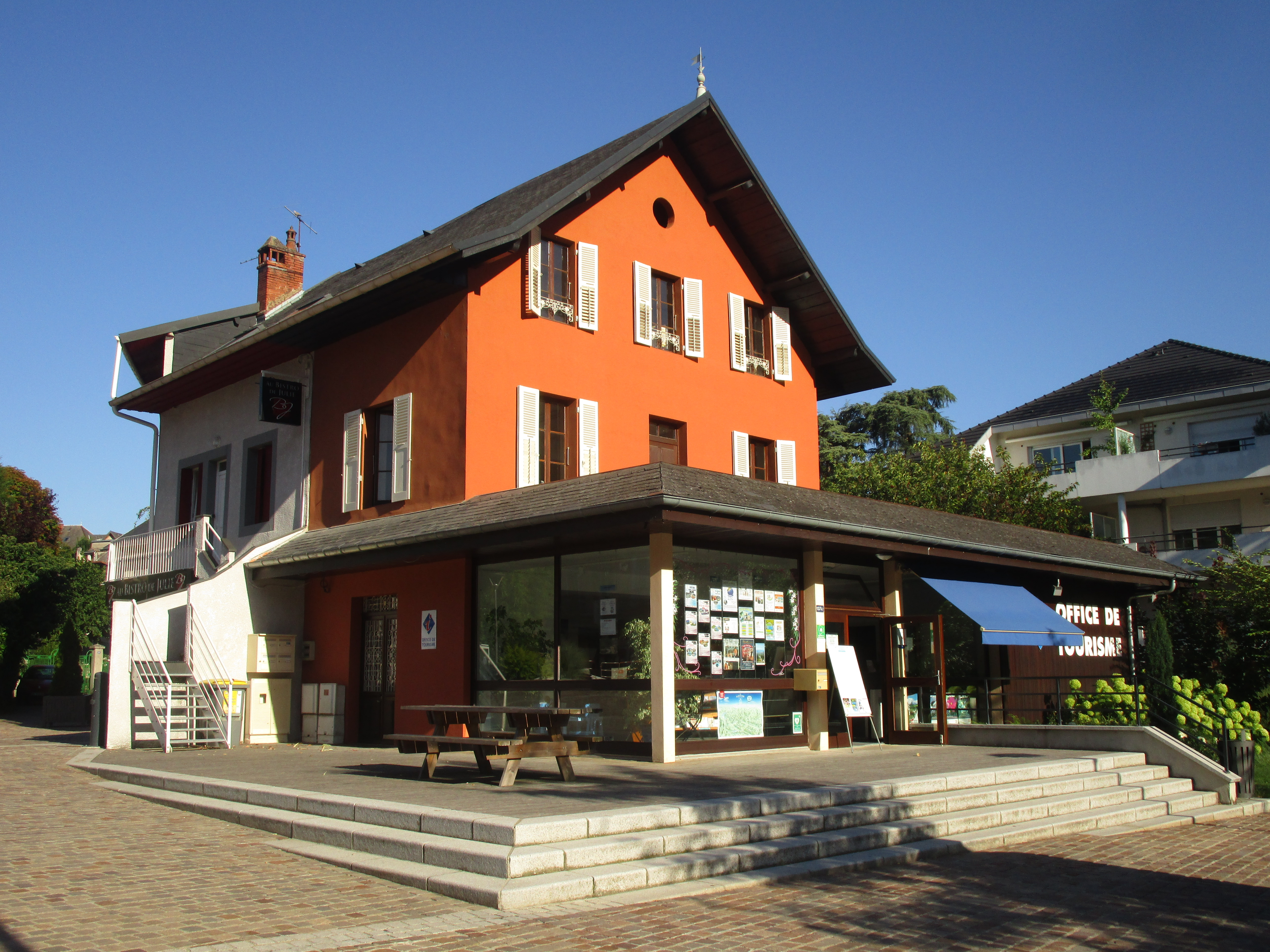 The tourism office of Challes-les-Eaux on August 3, 2016.